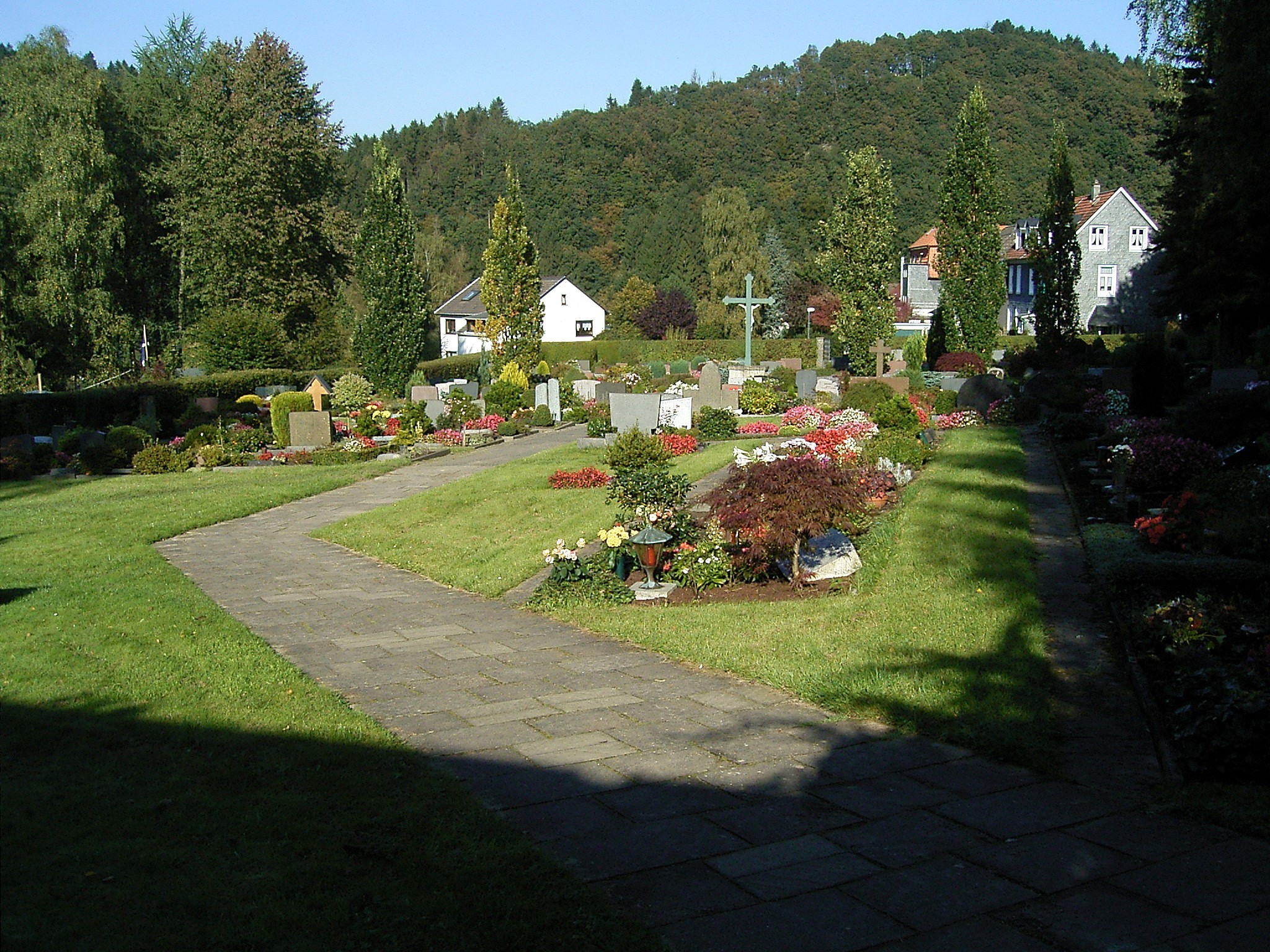 Description: Wuppertal-Beyenburg